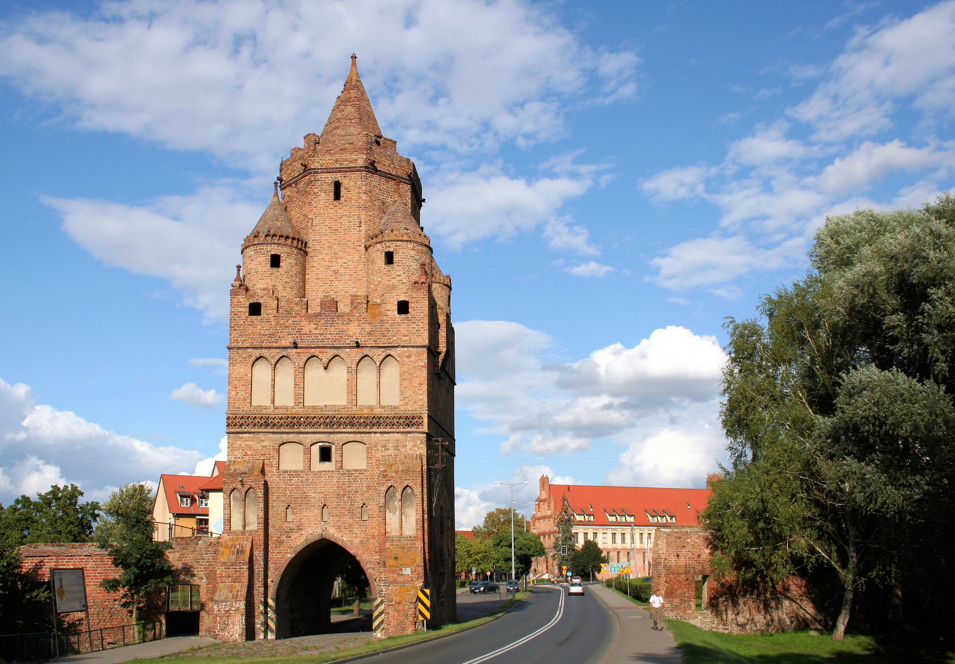 Schwedter Tor in Chojna, West Pomeranian Voivodeship, Poland